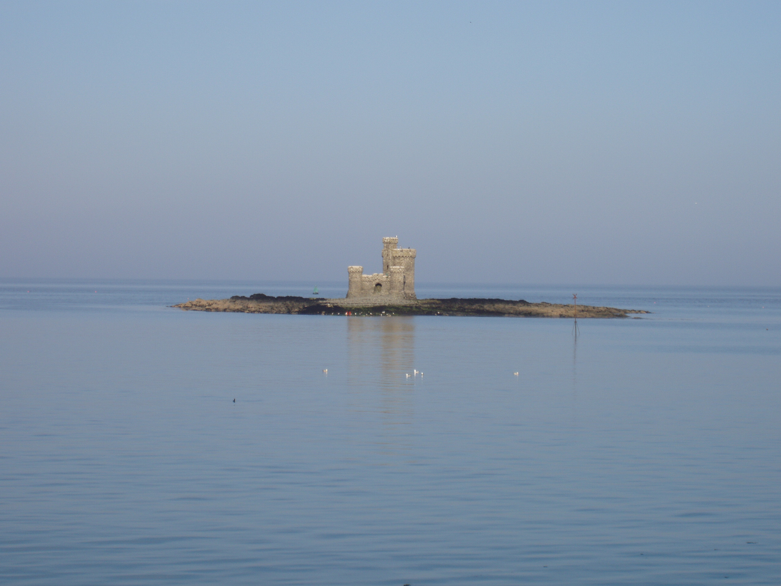 The Tower of Refuge stands upon St. Mary's Isle (also known as Connister Rock) - a marine hazard upon which many ships approaching Douglas Harbour wrecked due to low visibility or bad weather. The miniature castle was built in response to the 1830 destruction of the packet St. George with local donations. The project, undertaken by Sir William Hillary and designed by architect John Welch, was completed in 1832 and increased the visibility of the waterway hazard as well as provided a storage place for dry provisions in case anyone shipwrecked upon the isle. The islet is seen here at an average tide. Low tide allows one to walk out from the Douglas shore. Extremely high tide will completely submerge the islet from sight except for the Tower of Refuge.